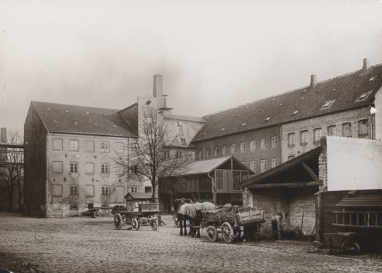 The courtyard at Tvedes Bryggeri in Copenhagen, Denmark